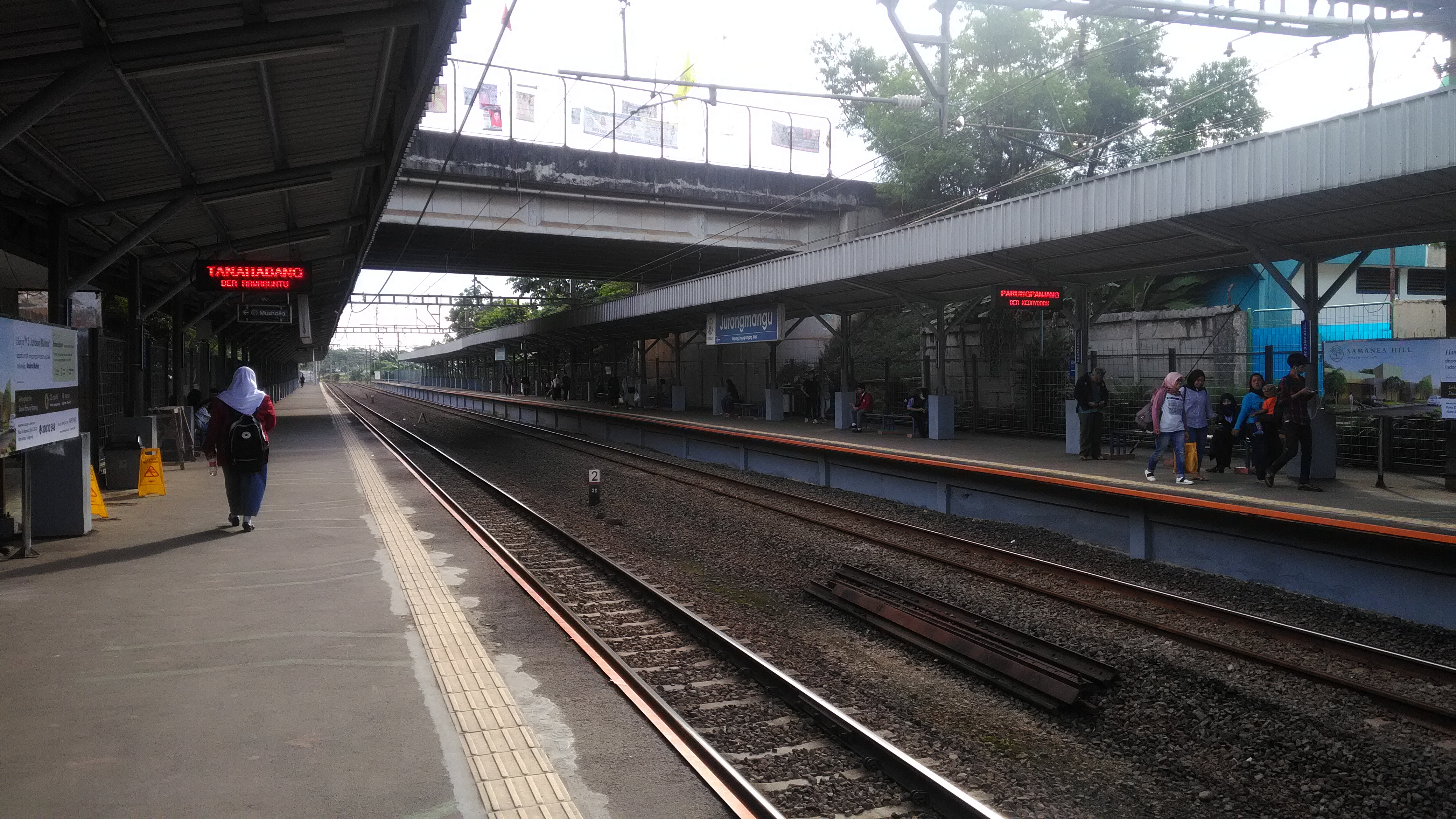 Jurangmangu Station